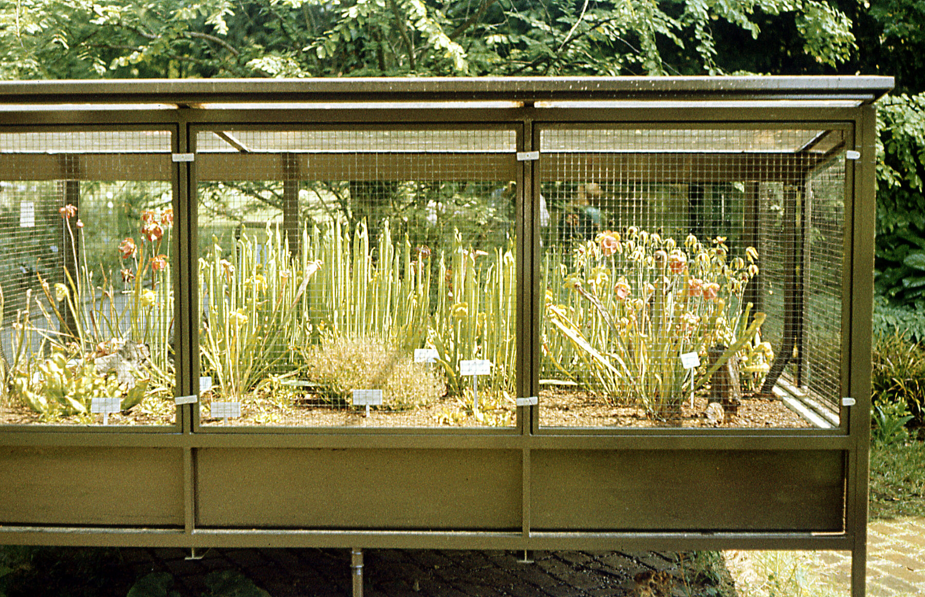 Insectivorous plants in Zurich bot.garden